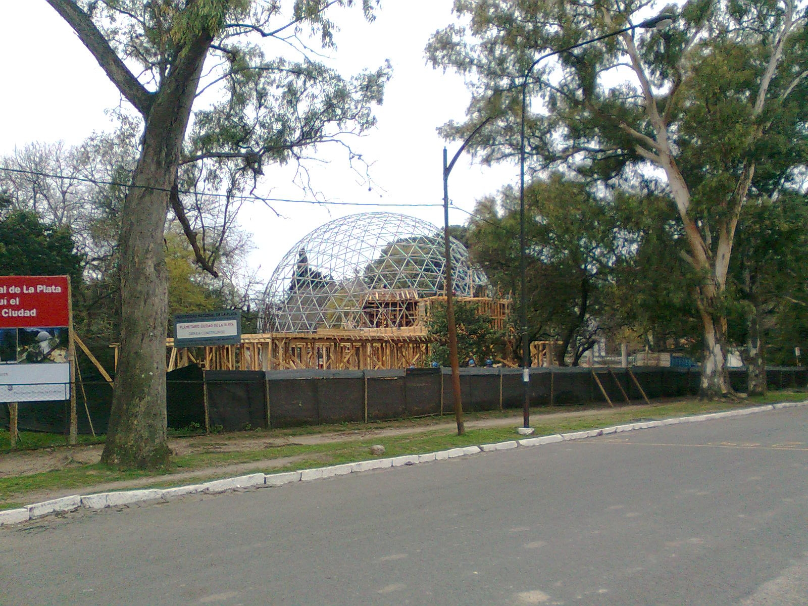 Photograph taken on Aug. 1, 2011 showing a stage in the construction of the Planetarium of La Plata, Argentina. The metallic structure of the dome is visible.